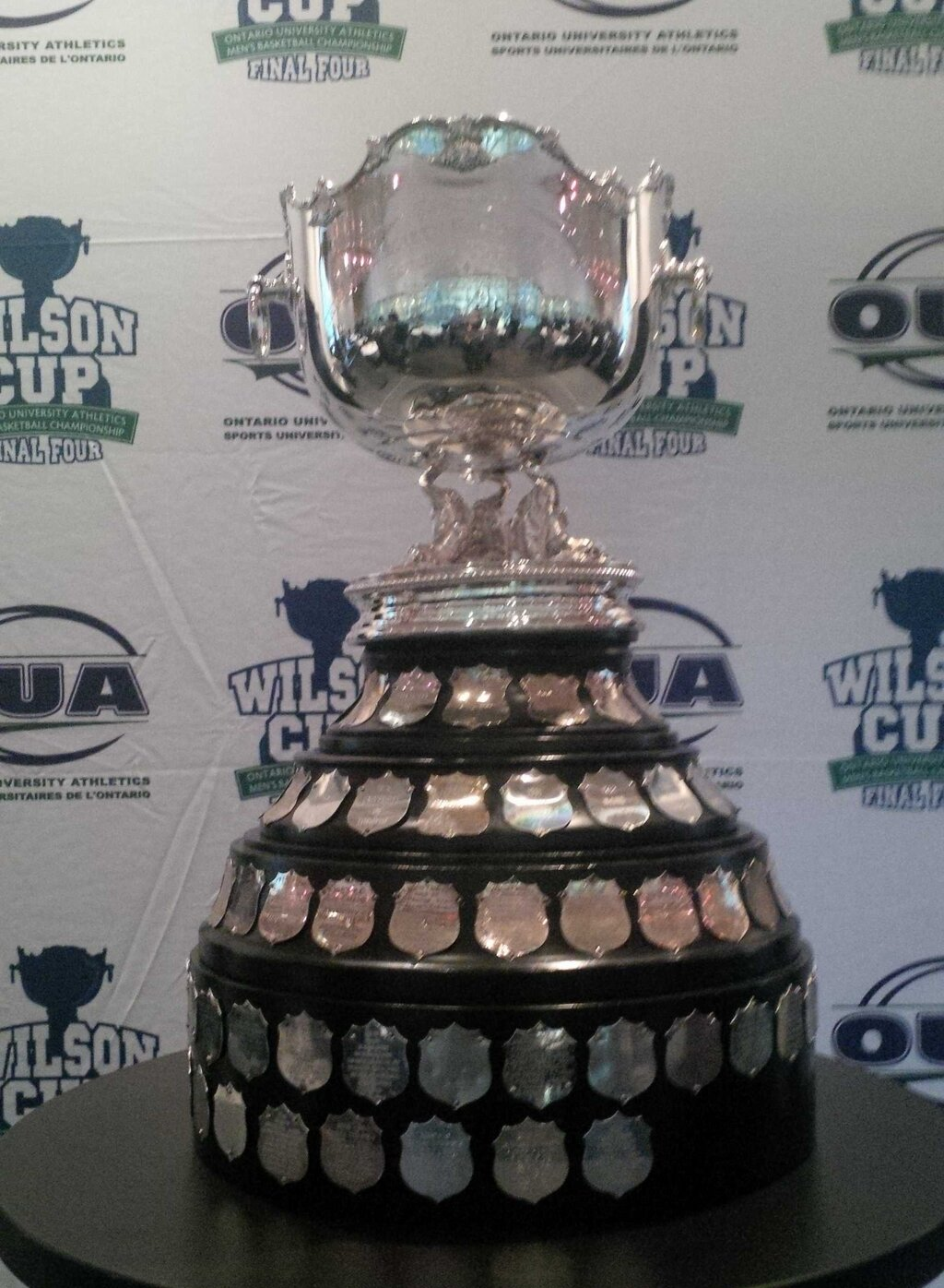 The Wilson Cup